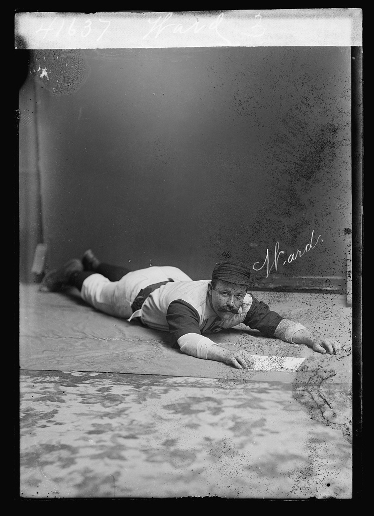 Frank Gray "Piggy" Ward photographed by C. M. Bell Studio pretending to slide into base